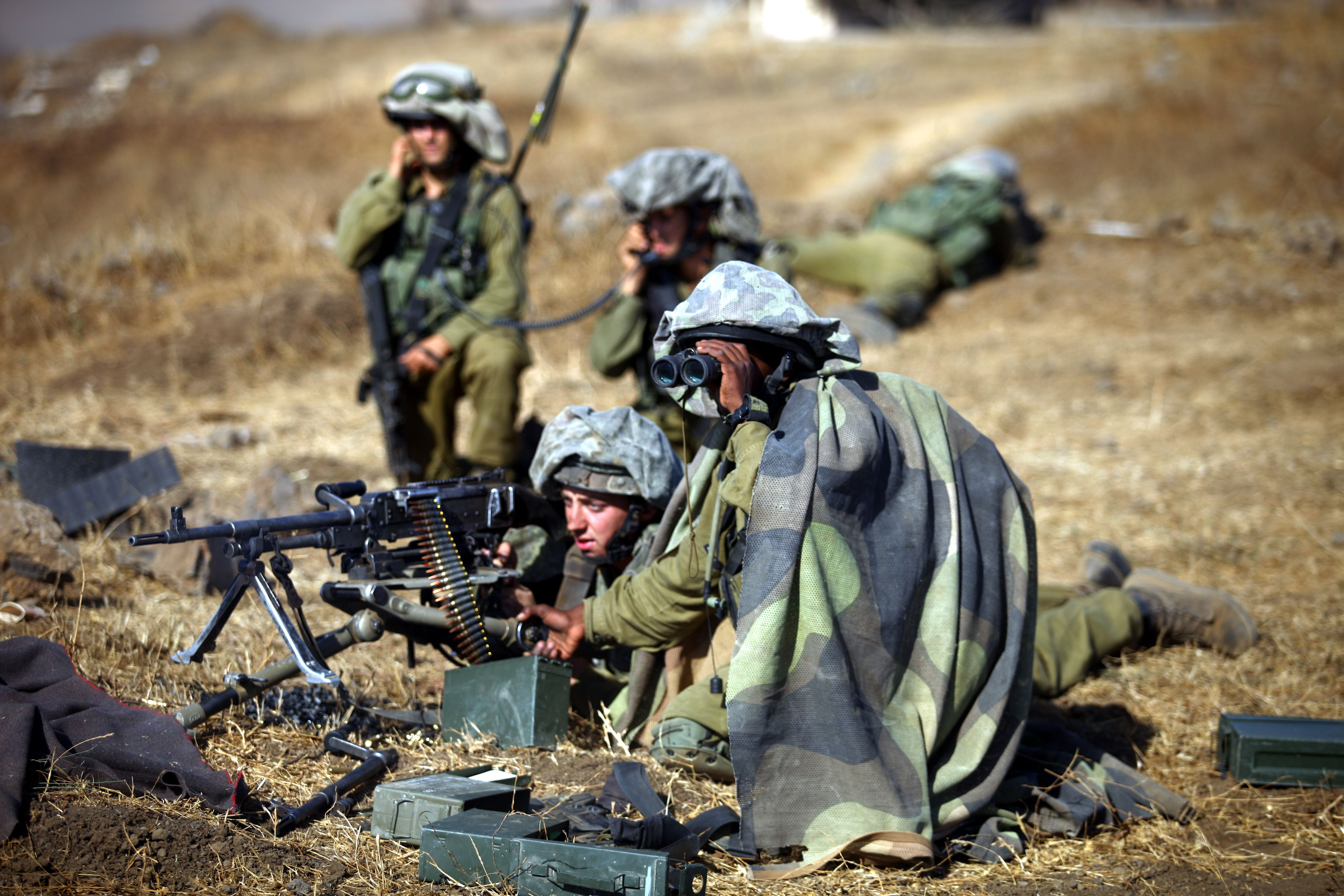 August 21, 2012 The 13th Battalion of the Golani Brigade during a drill held in the Golan Heights, northern Israel. The NAMER ("Tiger"), a new vehicle combining the artillery abilities of the Merkava tank and the APC's shielding capacities, was fully integrated in this drill for the first time, improving the battle tactics used by the IDF in the field. Photo by Staff Sgt. (res.) Abir Sultan The Israel Defense Forces Facebook • blog • Twitter